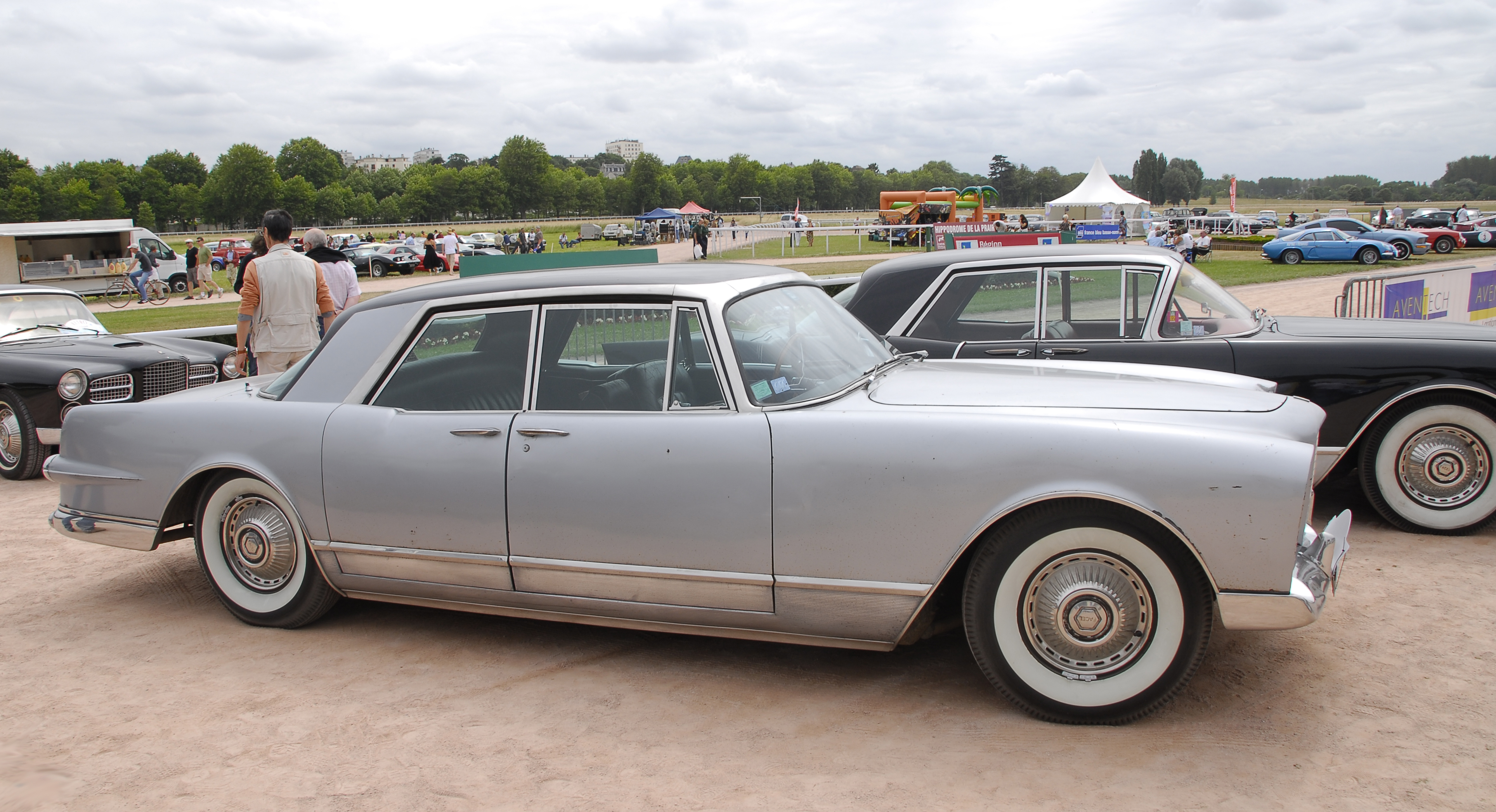 Facel Vega Excellence EX2 - behind is an earlier version with the panoramic windshield.